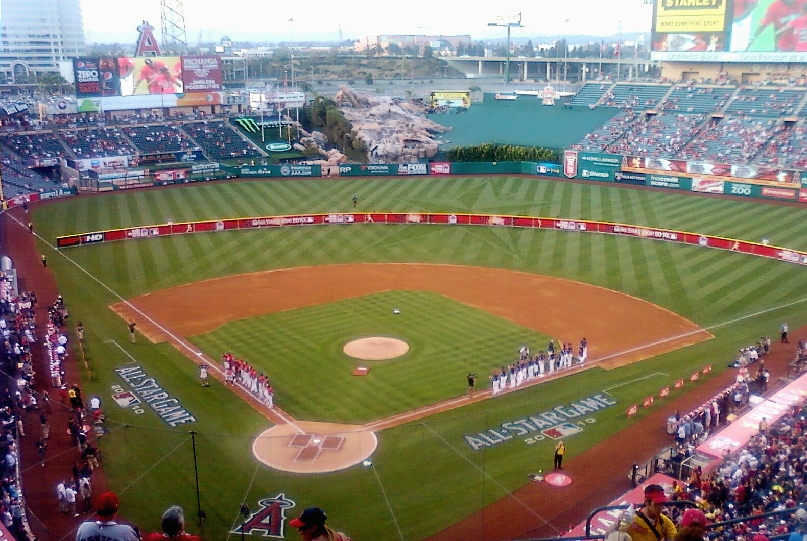 Pre-game lineup announcement for the Taco Bell All-Star Legends and Celebrity Softball Game during the 2010 Major League Baseball All-Star Game festivities at Angel Stadium of Anaheim. This photograph was taken with a Samsung Reclaim SPH-m560 mobile phone camera and edited (color balance, brightness, contrast) using ArcSoft PhotoStudio 5.5